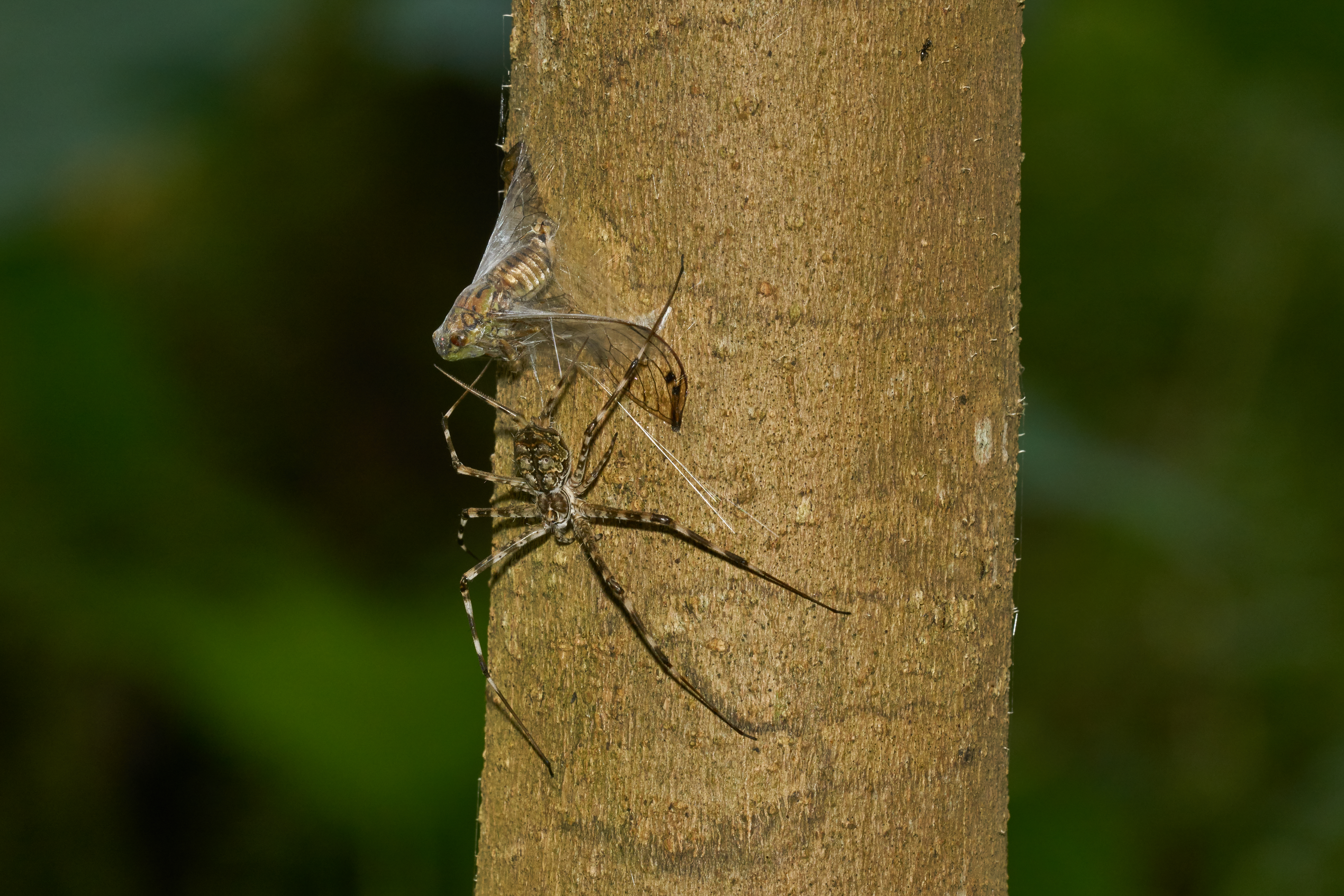 A Tree trunk spider (Hersilia sp.) capturing a cicada.